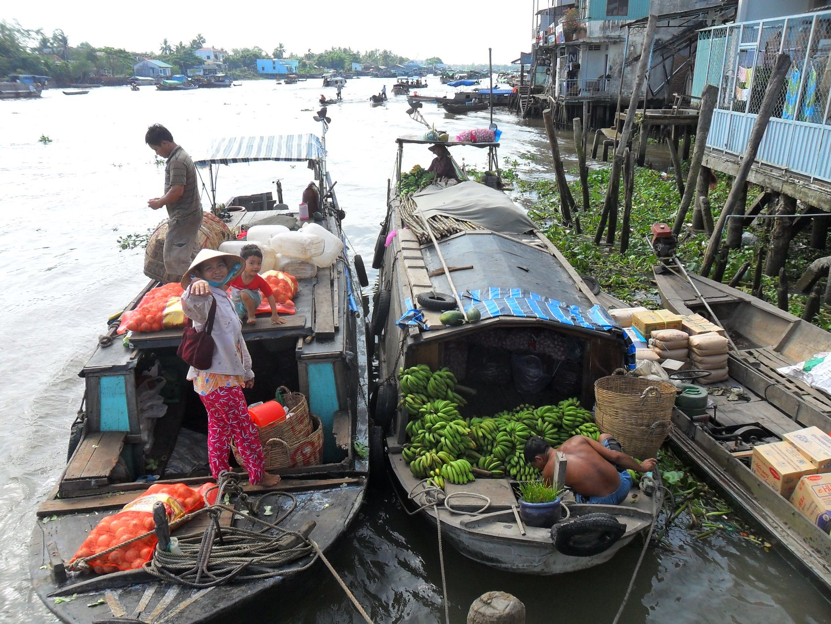 River life in Mekong Delta, Cai Be, Vietnam